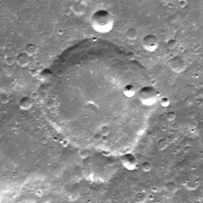 Clementine image. Prandtl's location is on the inner part of the southeastern section of the rim of the basin Planck.